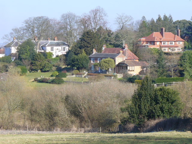 Thursley Village Some of the large detached houses in this prosperous village - as seen from the churchyard.